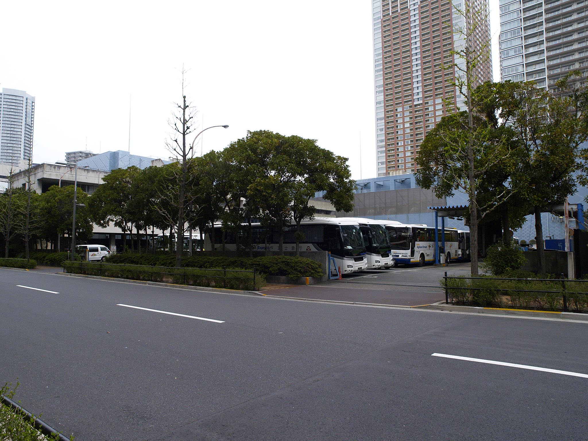 Fuji Express Tokyo Dept. a group of Fuji Kyuko (Fujikyu), located at Shibaura, Tokyo.